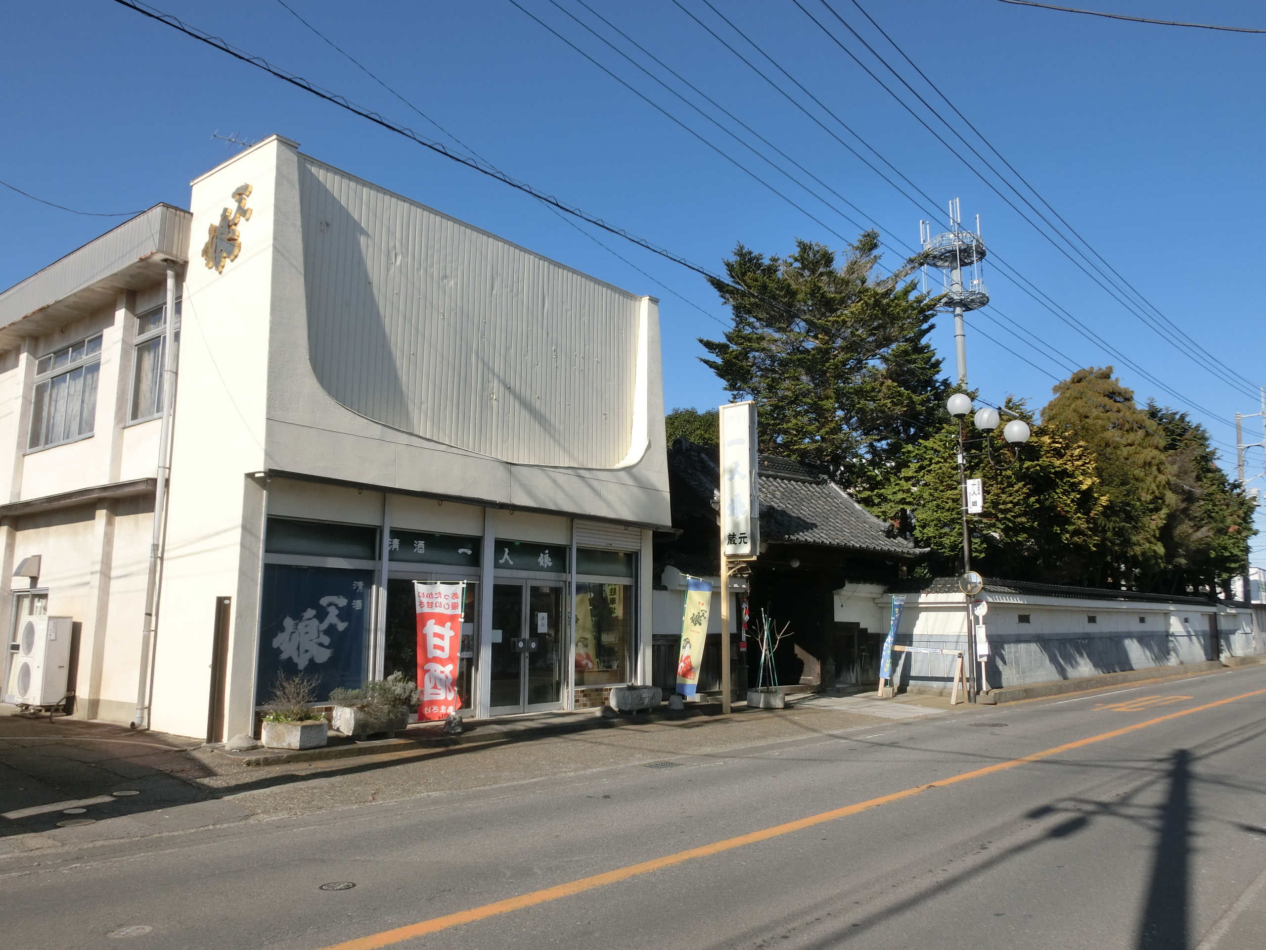 Yamanaka Shuzoten Brewery Head Office